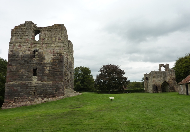 Etal Castle, Northumberland, England. View from west.